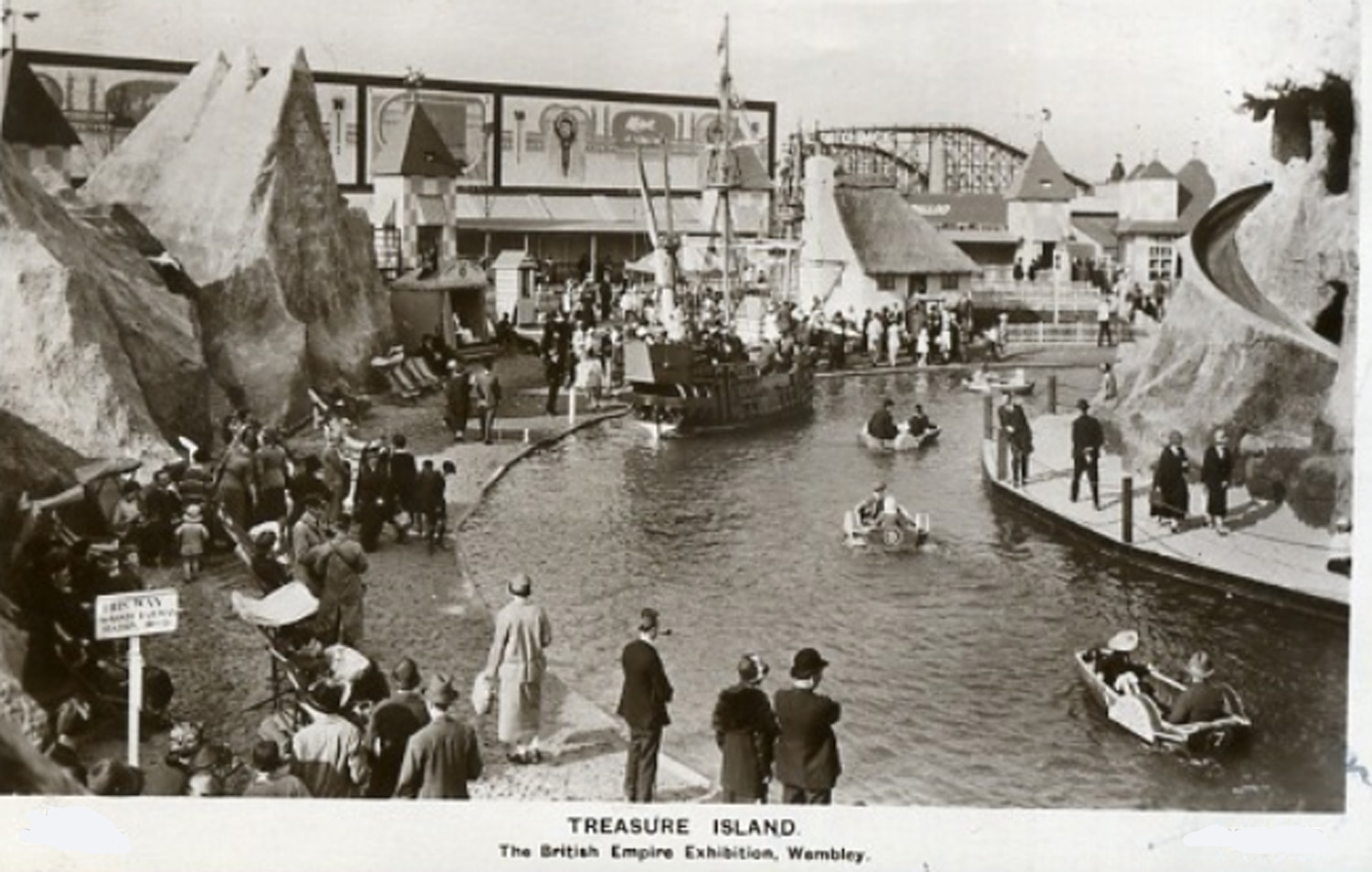 Treasure Island feature at the British Empire Exhibition in 1925